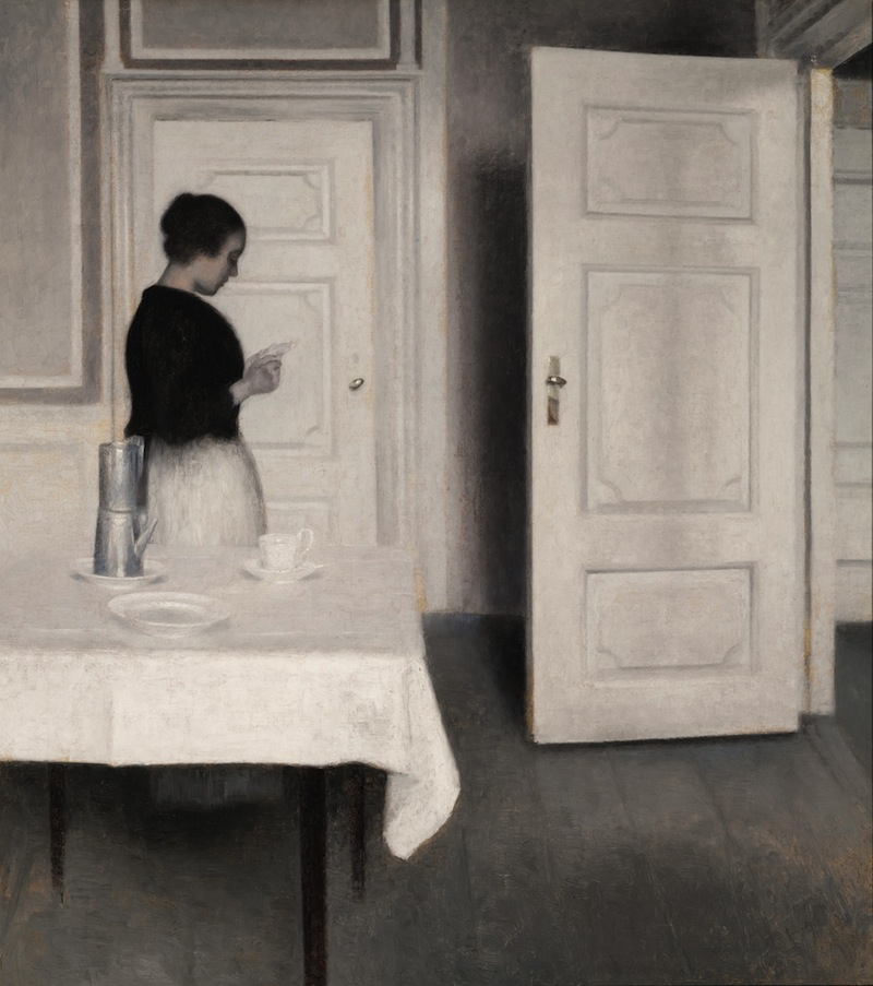 Ida Reading a Letter, painting by Vilhelm Hammershøi (1864–1916) (the version from 5. sep 2012, 14:22 was cropped in the right side)